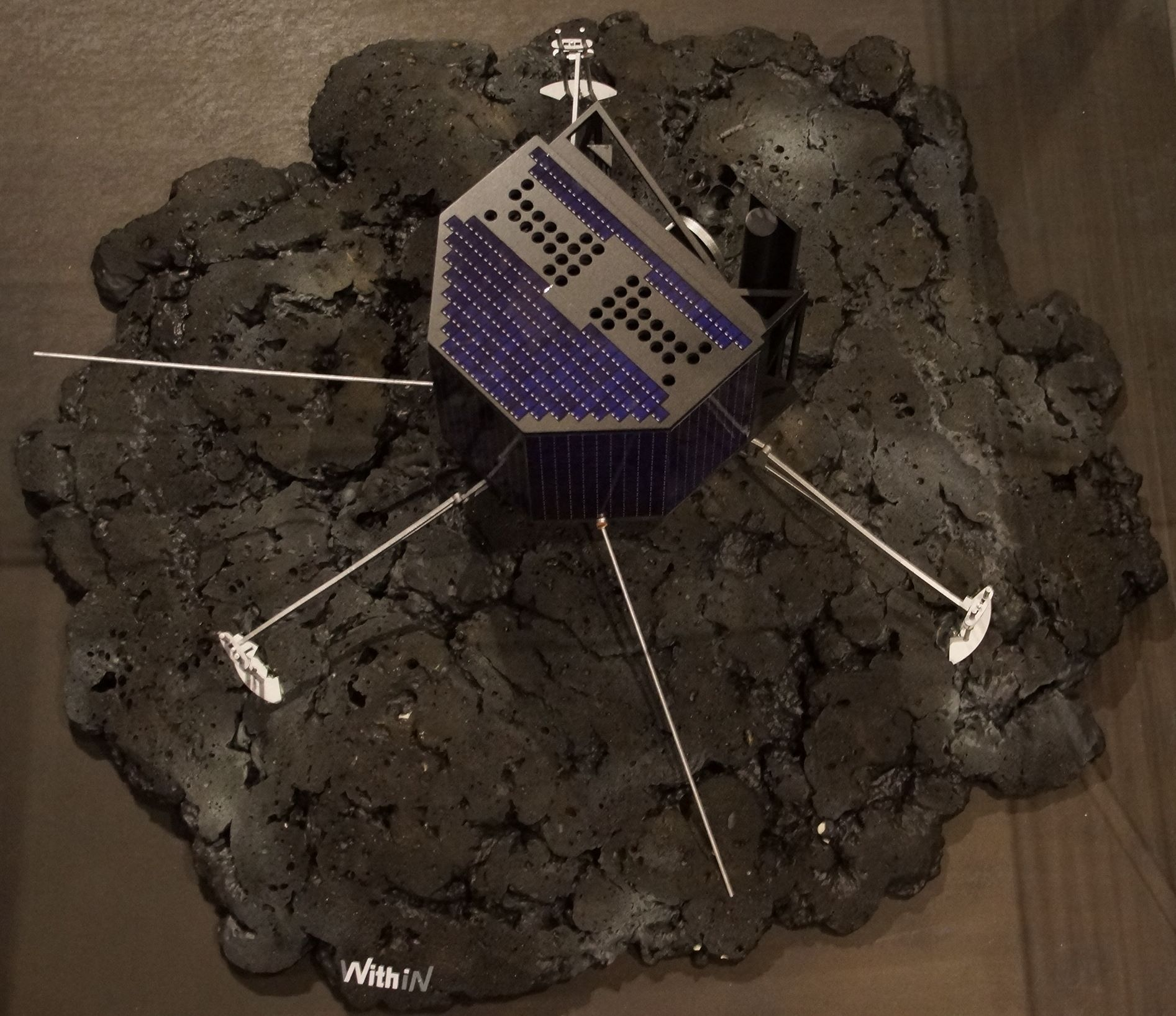 Model of European Space Agency lander Philae (exhibited at Euro Space Center in Belgium)